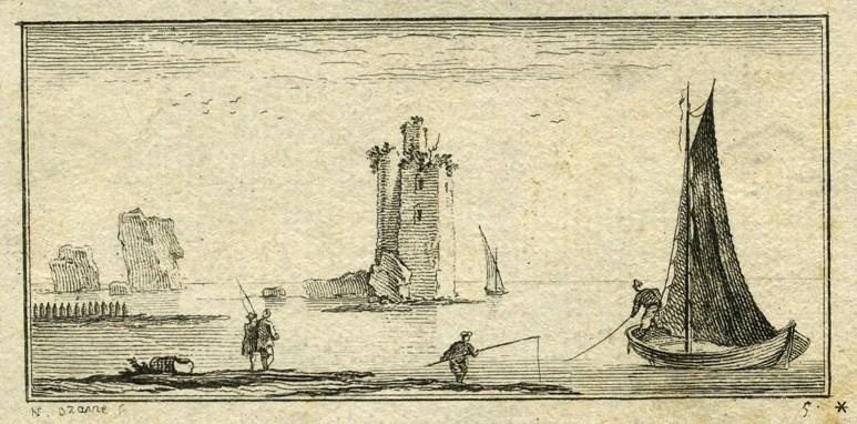 Landscape beach with boats and fishermen, undated.